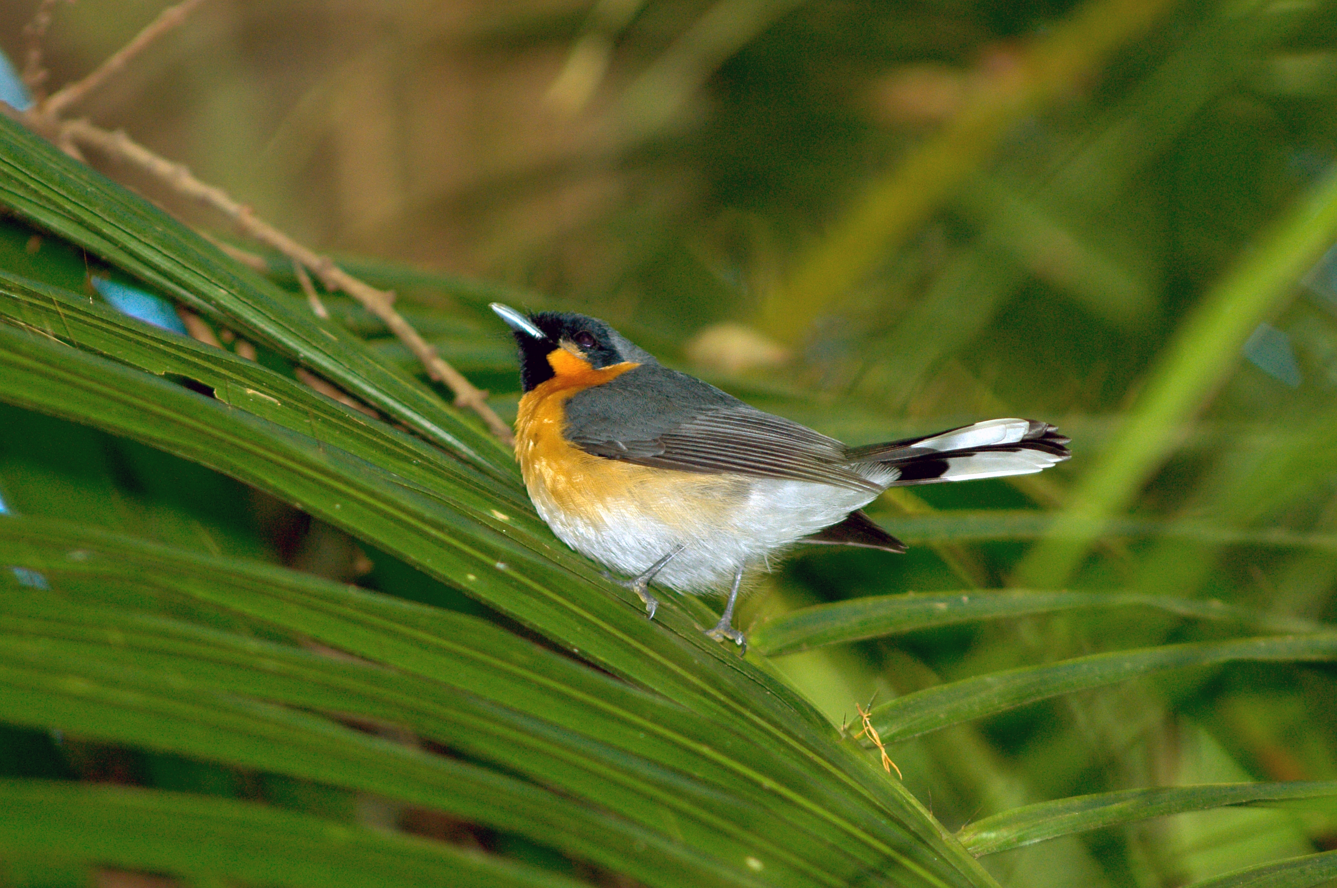 Spectacled Monarch (Monarcha trivirgatus), Malanda, Queensland